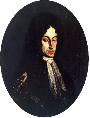 Portrait of Rinaldo III d'Este